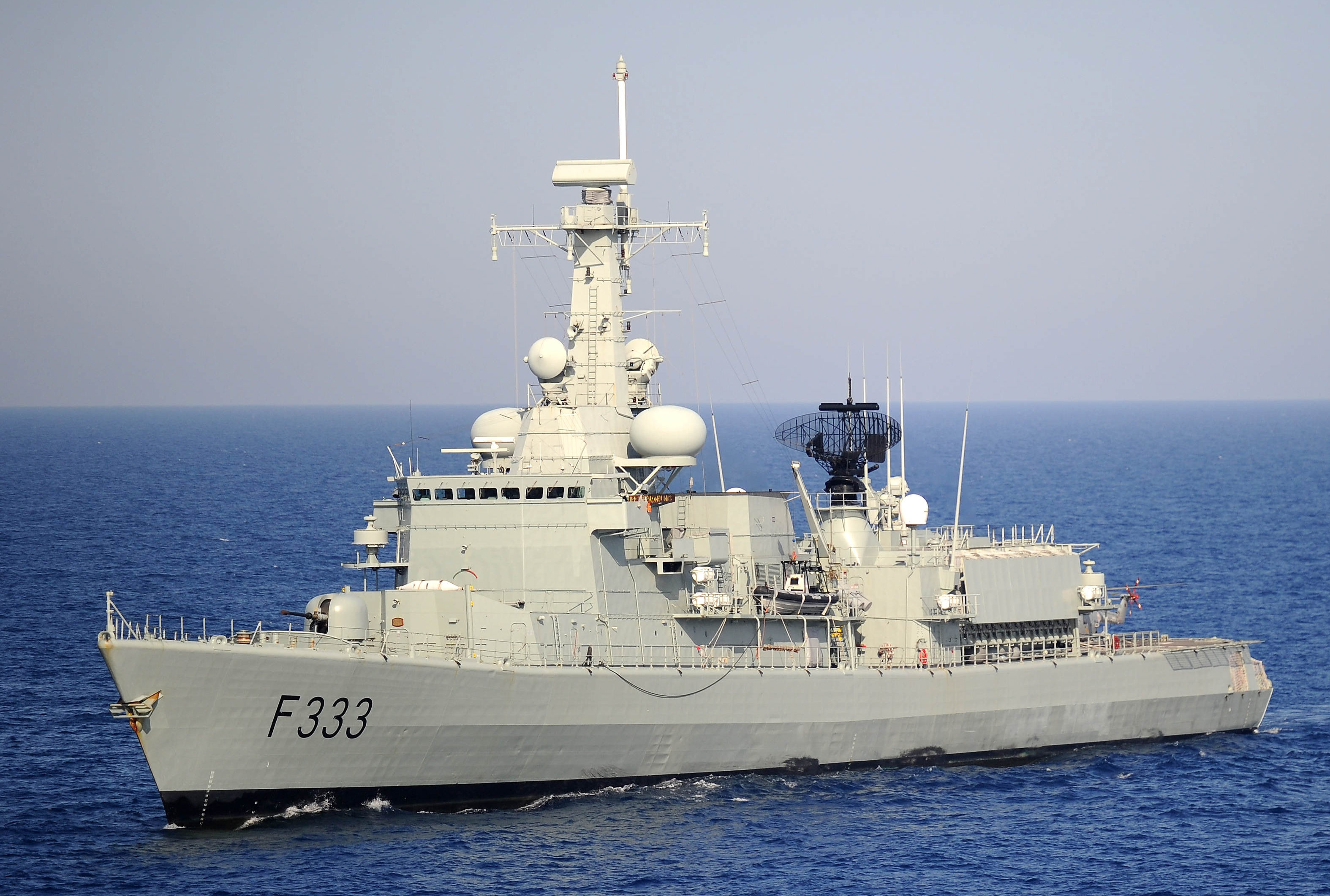 MEDITERRANEAN SEA (May 27, 2010) Portuguese Navy frigate NRP Bartolomeu Dias (F-333) during the at sea portion of exercise Phoenix Express 2010 (PE 10). PE-10 is a two-week exercise designed to strengthen maritime partnership and enhance stability in the region through increased interoperability and cooperation among partners from Africa, Europe and United States. (U.S. Navy photo by Mass Communication Specialist 2nd Class Jimmy C. Pan/Released)